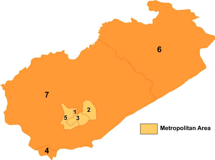 Map of Fuxin Prefecture — of northwest Liaoning Province, in northeastern China.